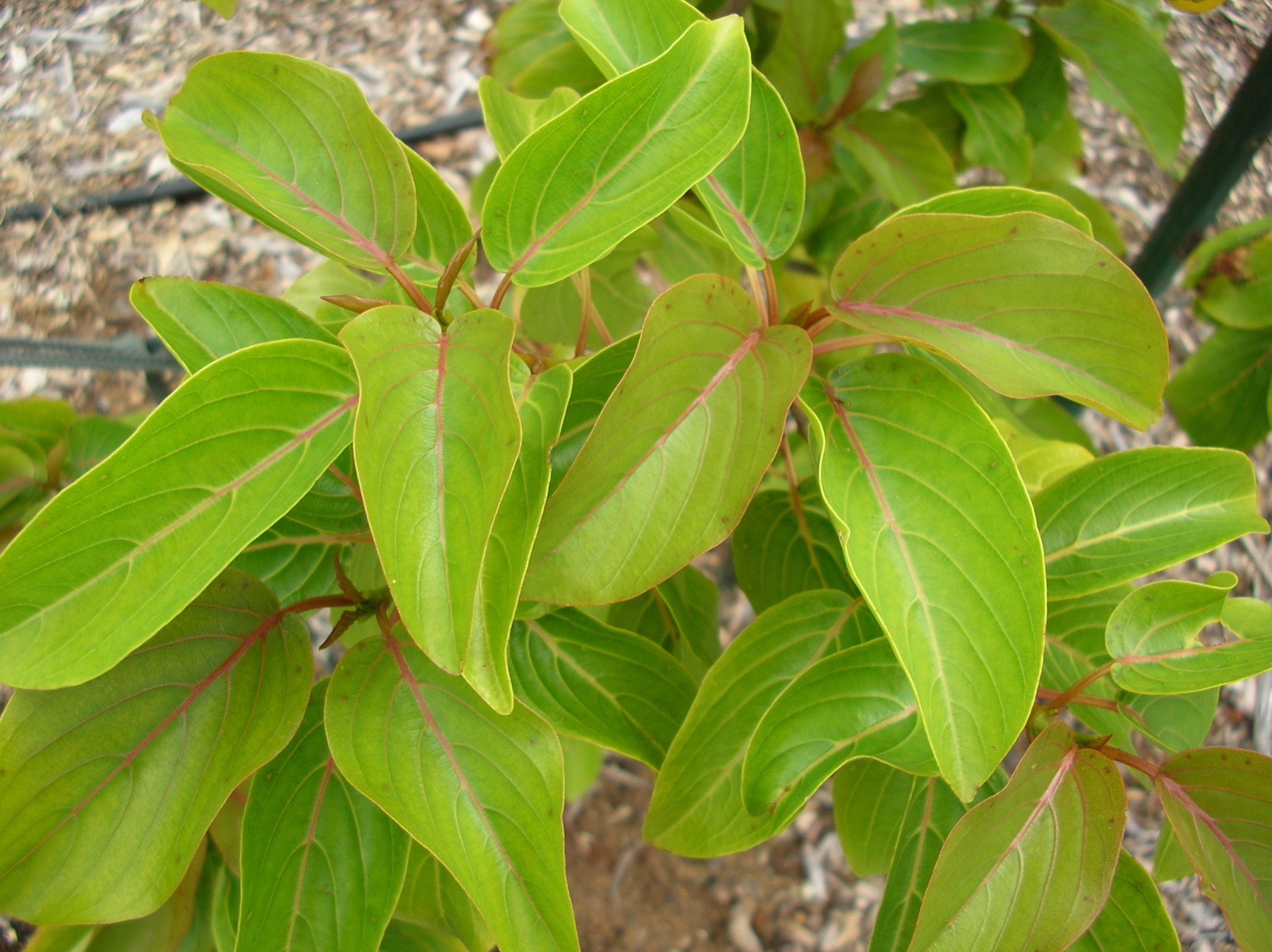 Colubrina oppositifolia (leaves). Location: Maui, Maui Nui Botanical Garden